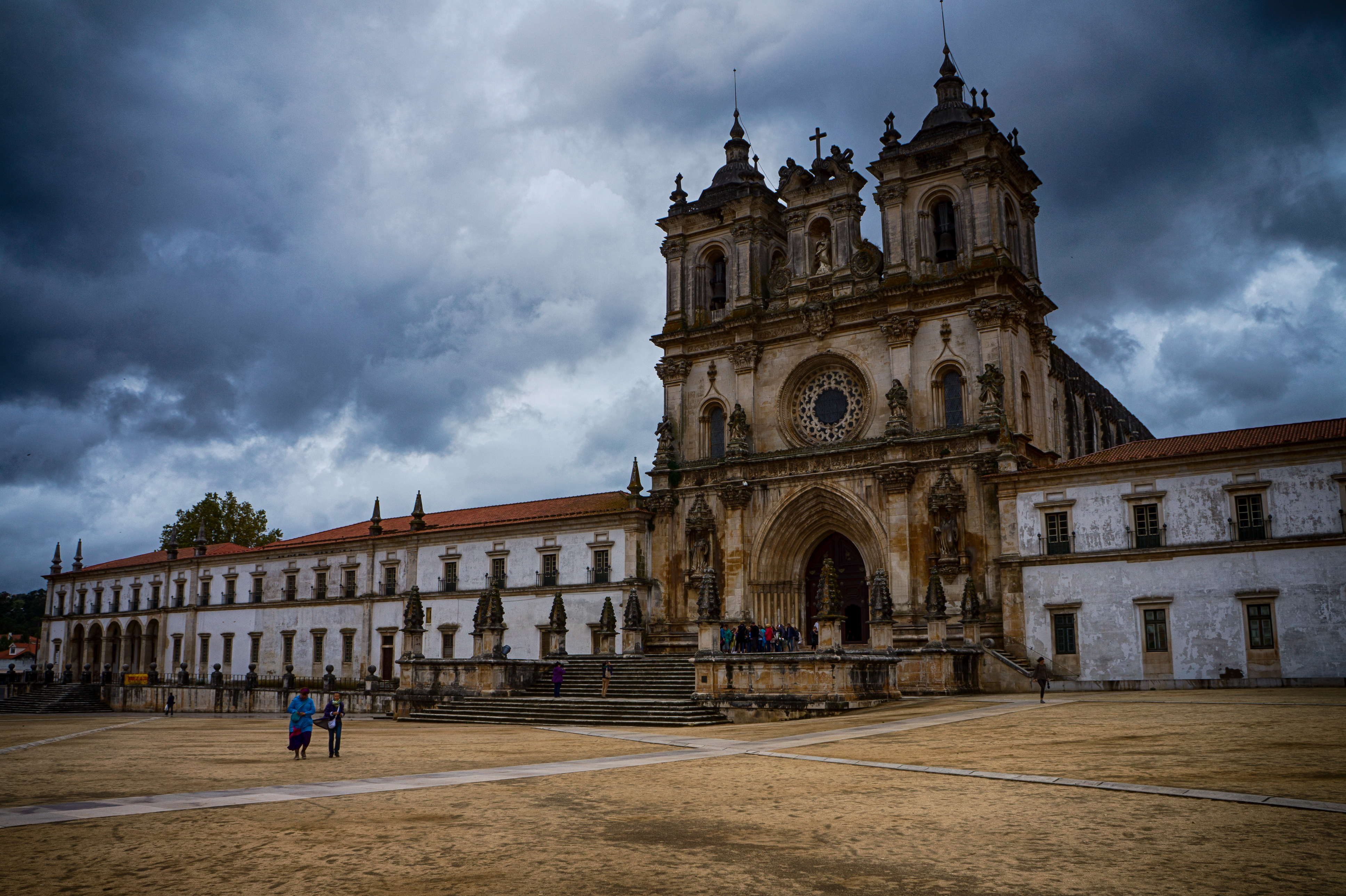 The Alcobaça Monastery is an impressive Medieval Roman Catholic monastery located in the town of Alcobaça. The church and monastery were one of the first Gothic buildings and one of the most important medieval monasteries in Portugal. Due to its artistic-historical importance and monumental beauty, the Alcobaça Monastery warranted its inscription in the list of UNESCO World Heritage Sites in 1989. More about it here: bit.ly/1U6DEYv